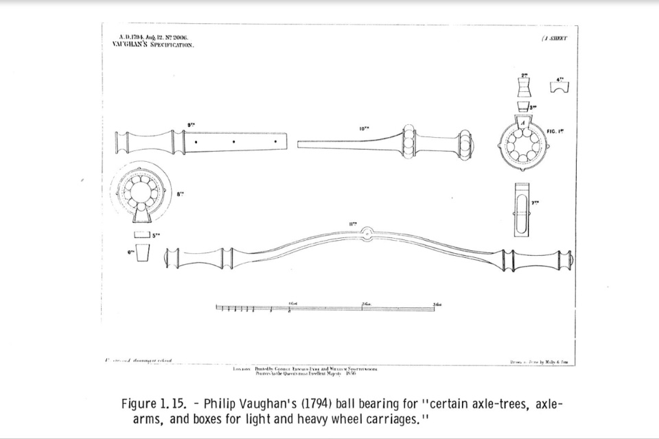 Diagram of Vaughan's invention on the patent